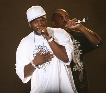 Photo by Rikard Westman